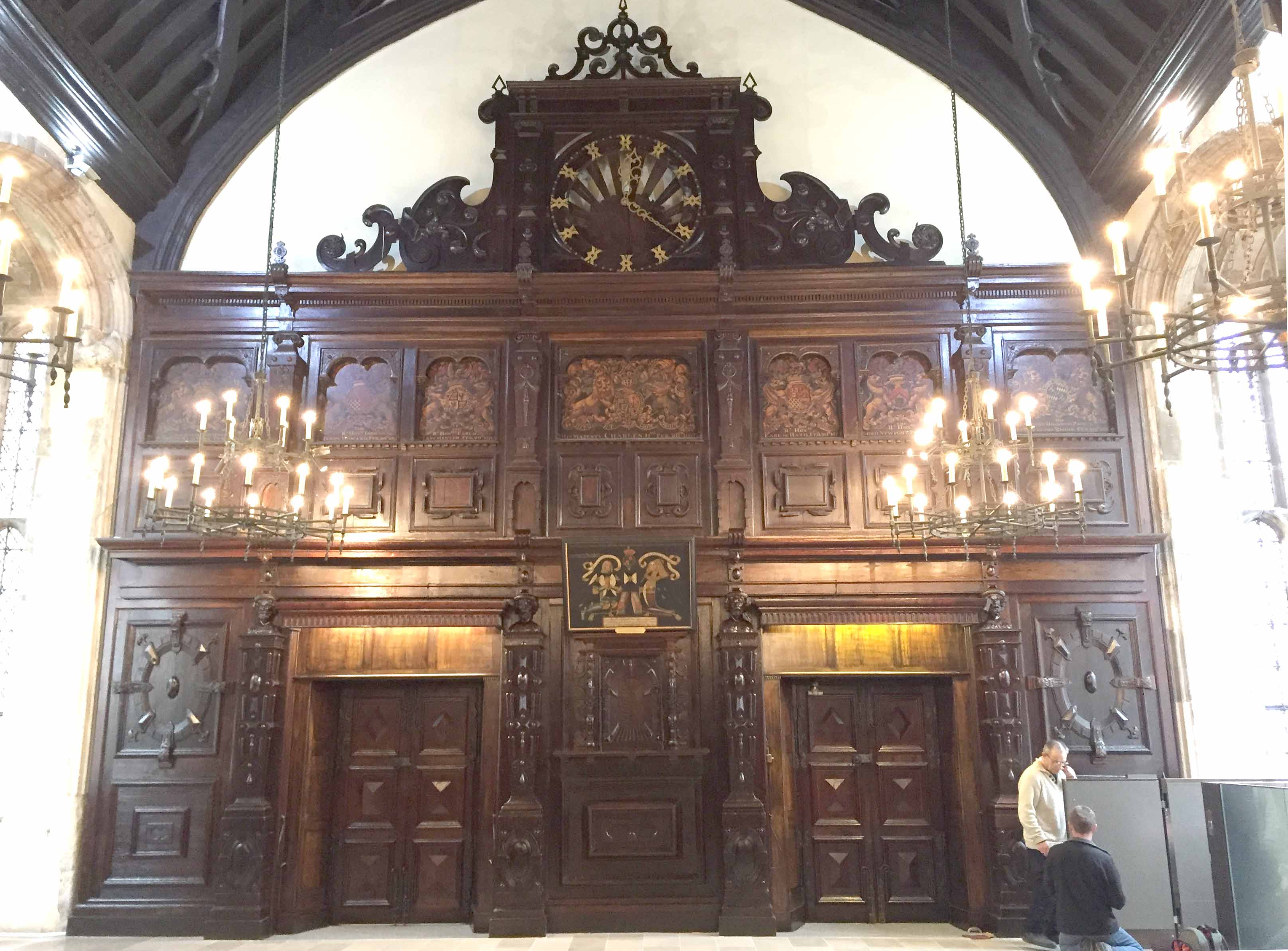 Lincoln's Inn Old Hall